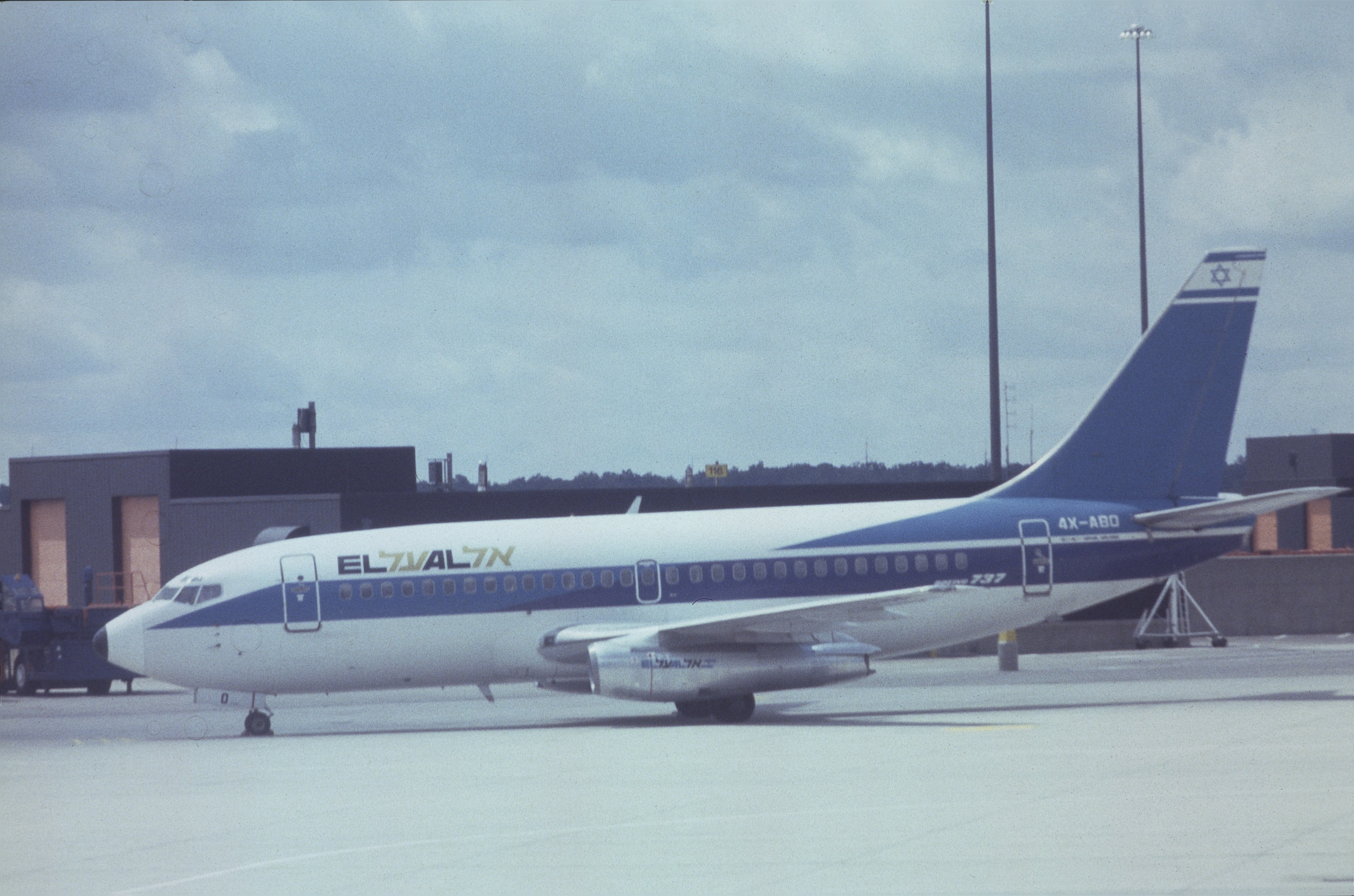 Boeing 737-258/Adv 4X-ABO (cn 22857/919) El Al Israel Airlines (still operating for Shaheen Air International, Pakistan, as AP-BIQ in 2010). Montreal - Mirabel International (YMX / CYMX) Canada - Quebec, July 1987.